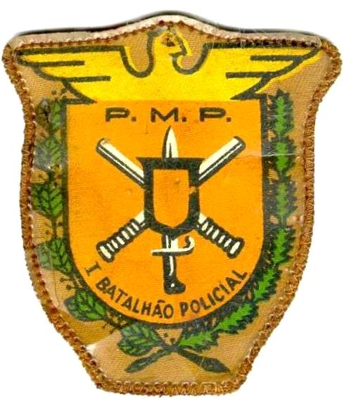 Old coat of arms of 1st Battalion of Military Police - Parana - Brazil.